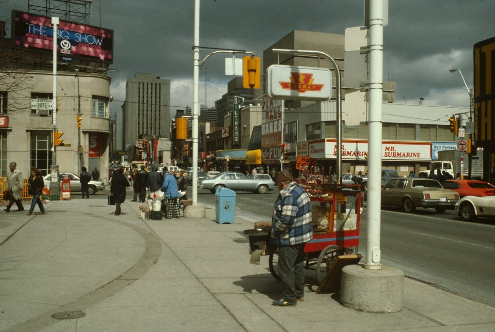 Yonge Street & Dundas Street. Street vendor outside subway station in Toronto, Ontario, Canada.